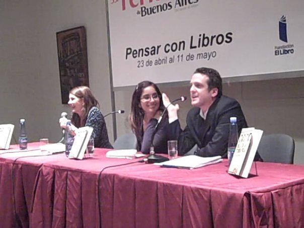 Book's Presentation